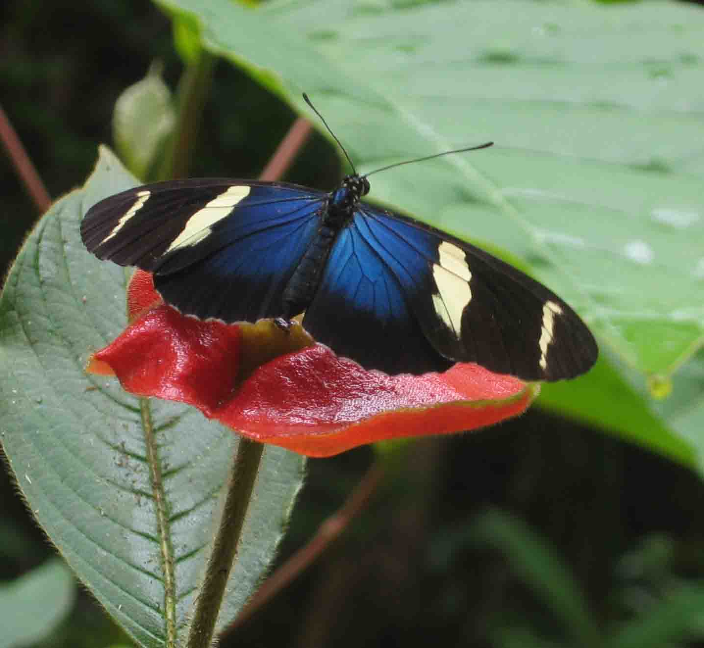 Photograph by Dirk van der Made (User:DirkvdM - for more photos see user:DirkvdM/Photographs). A butterfly in Panama, near Santa Fe, April 2004